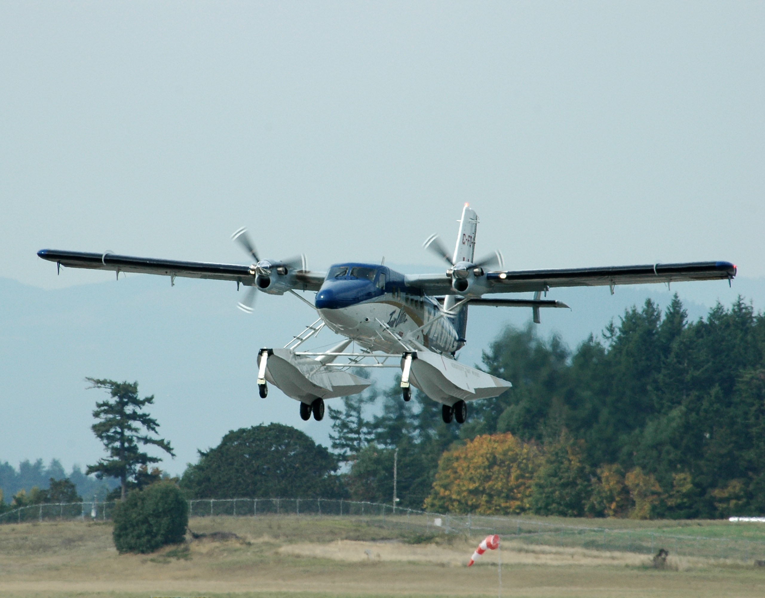 First flight of the new Series 400 Twin Otter, manufactured by Viking Air (the type certificate holder). Airplane is technical demonstrator C-FDHT. Taken at Victoria International Airport (CYYJ), October 1, 2008.